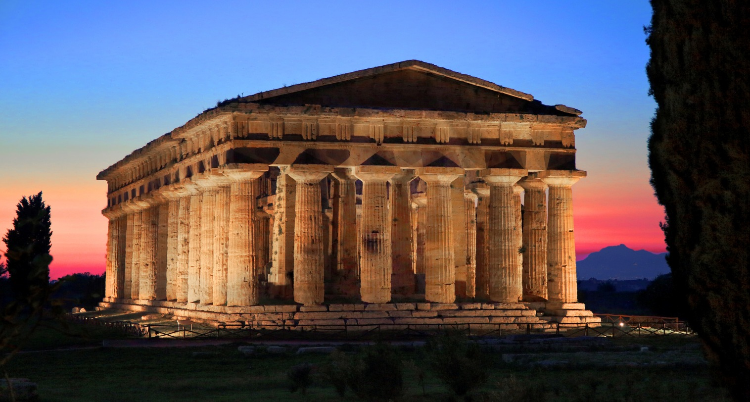 Paestum night